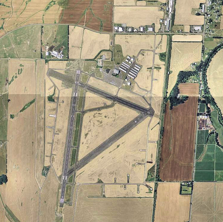 USGS digital orthophoto of Corvallis Municipal Airport in Oregon